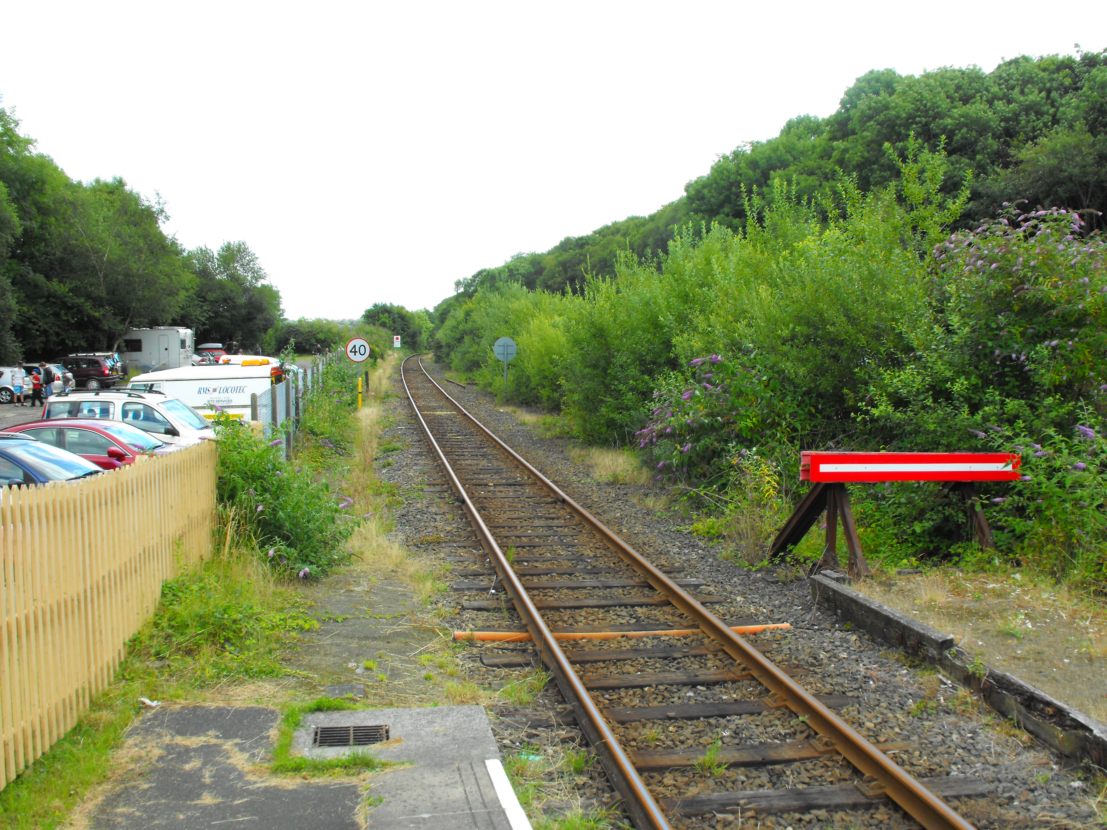 Okehampton railway station